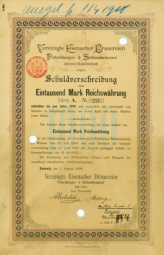 Share of Vereinigte Eisenacher Brauereien Petersburger and Schlossbrauerei over 1000 Marks, Erbslöh